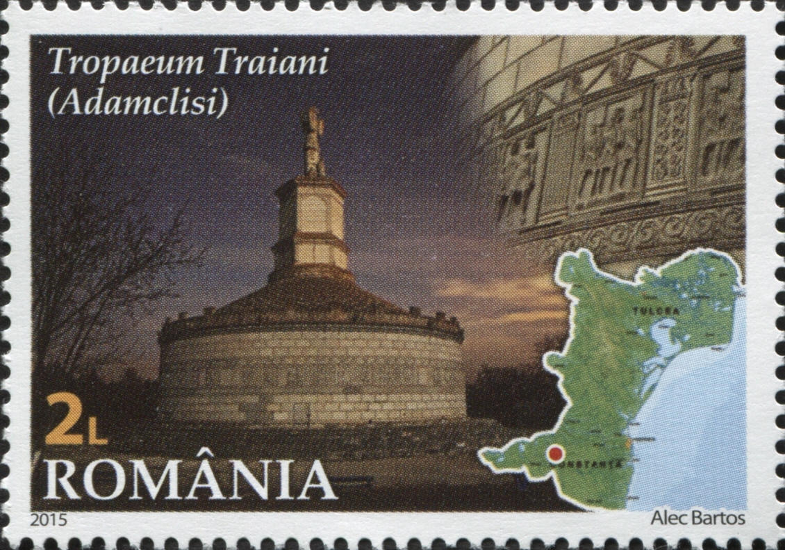 Stamps of Romania, 2015